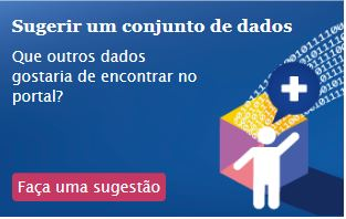 Screenshot from EUODP